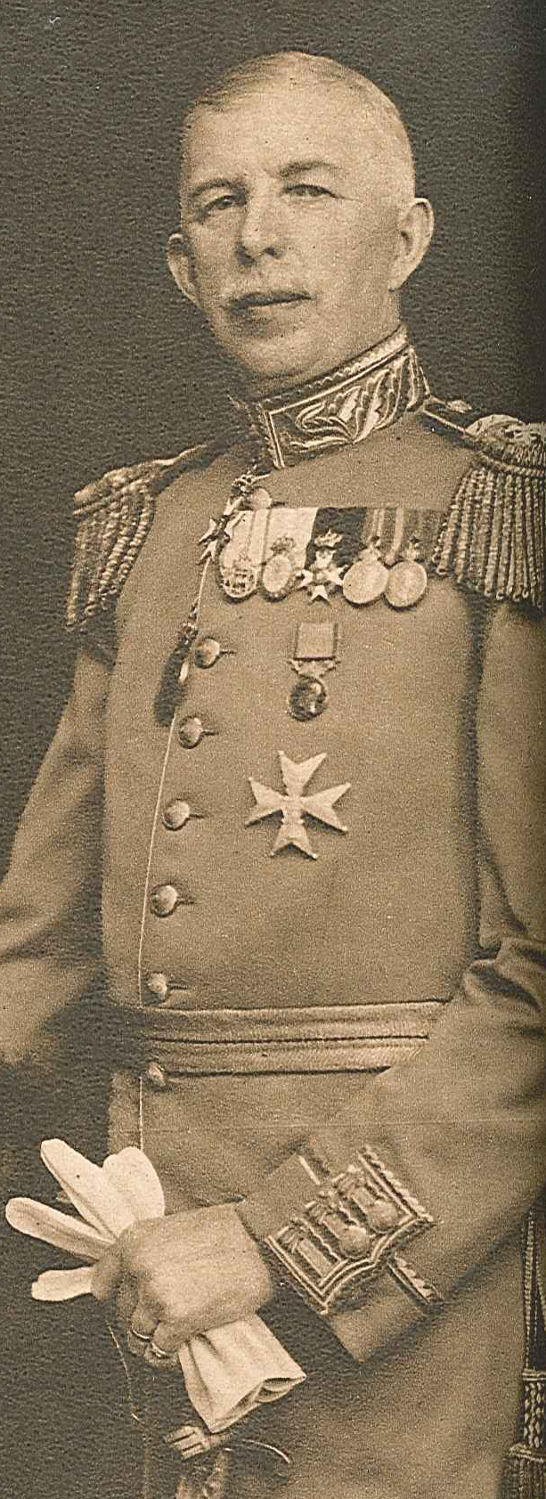 Hans Ramel (1867-1957), Swedish baron, landowner, courtier and member of parliament.